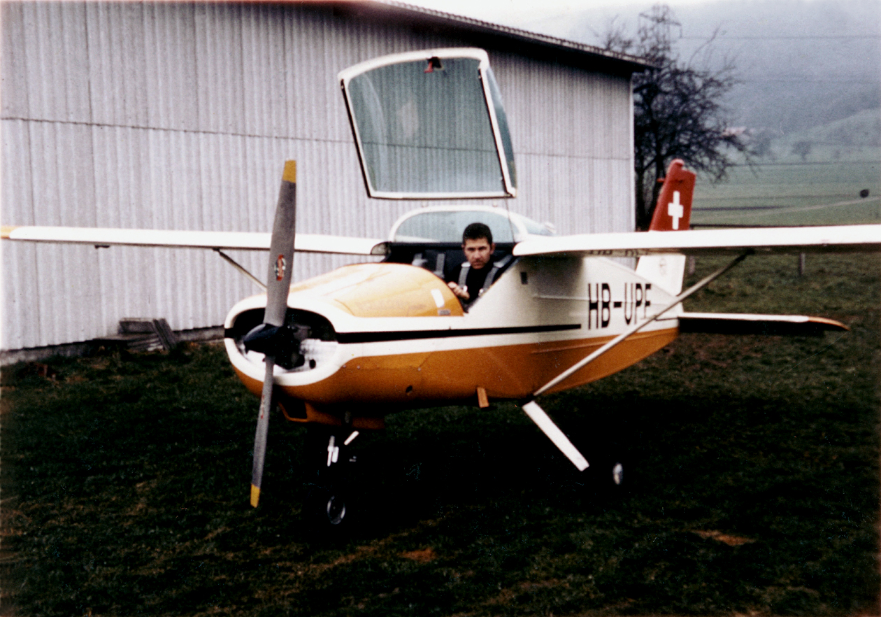 Bölkow 208 C Junior HB-UPF of Motorfluggruppe Thurgau at Lommis Airfield (LSZT)